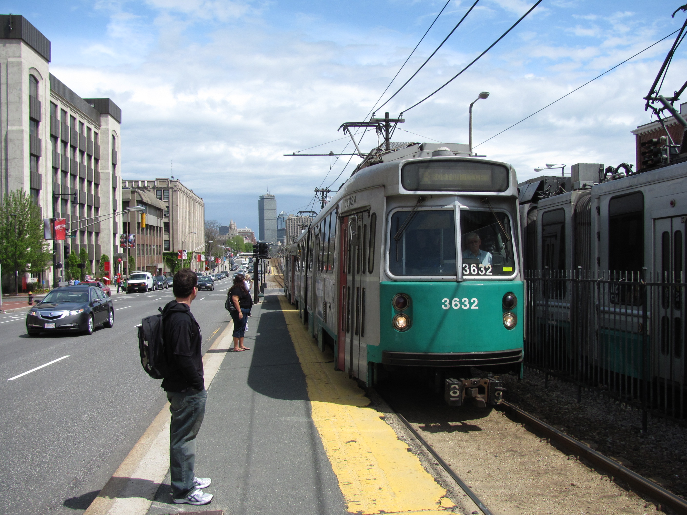 Looking east along Commonwealth Avenue at St. Paul Street MBTA station on the Green Line B Branch, Boston Massachusetts